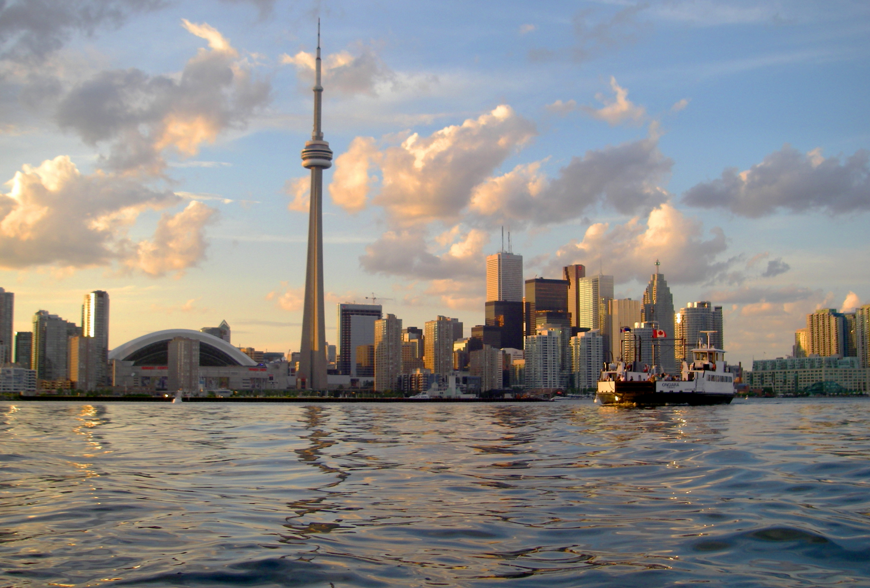 View of Toronto skyline from Toronto Harbour. Toronto Island ferry in foreground. Toronto, Canada.